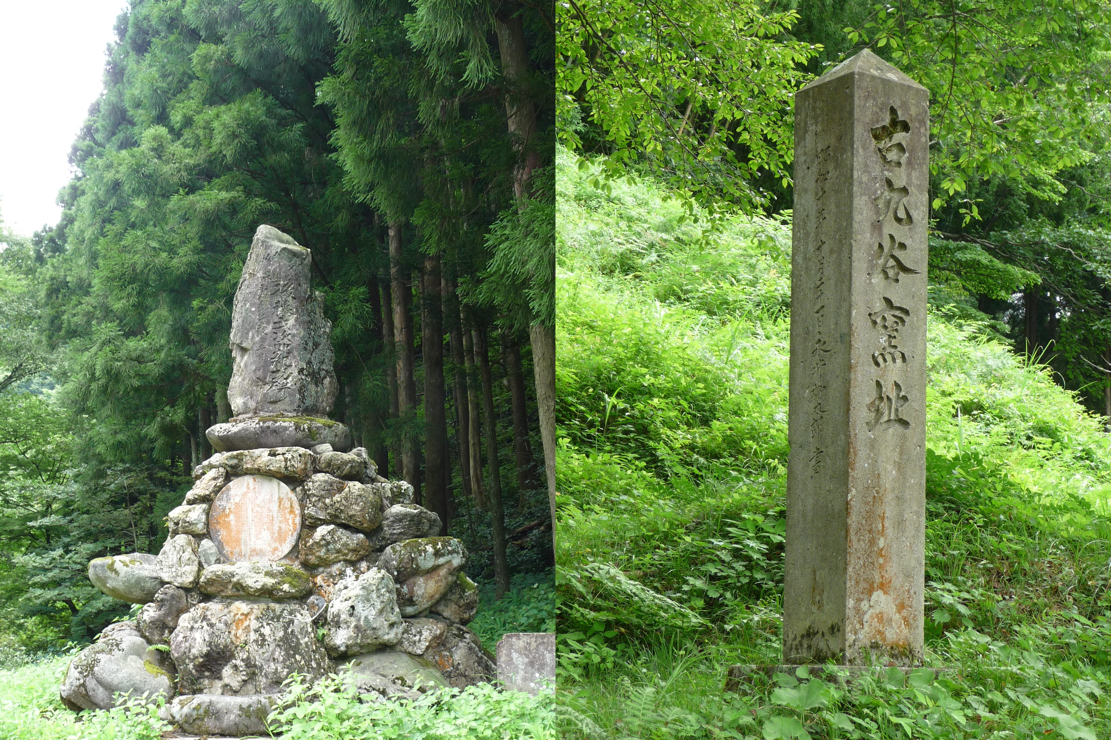 stone mounted monument of Saijirou Goto and Old-Kutani (left), and the stone pillar indicates site of Old-Kutani porcelain furnace (right) at Kutani machi, Yamanaka onsen, Kaga, Ishikawa, Japan